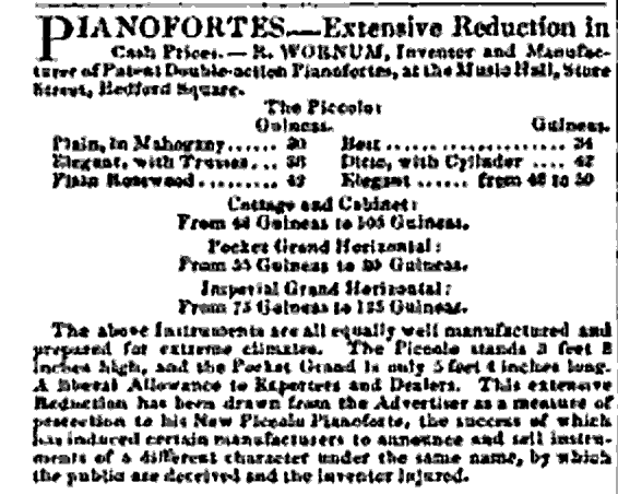 advertisement and cash prices for Robert Wornum & Sons, piano manufacturers